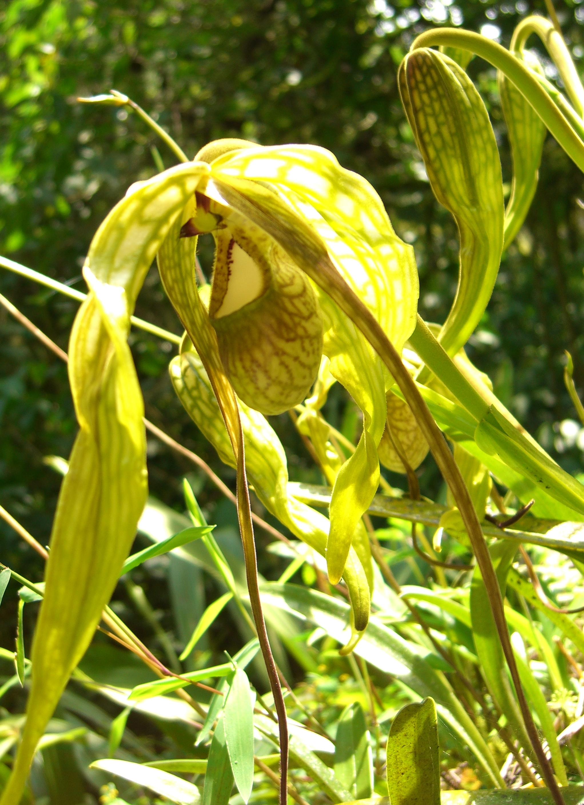 Please report references to .